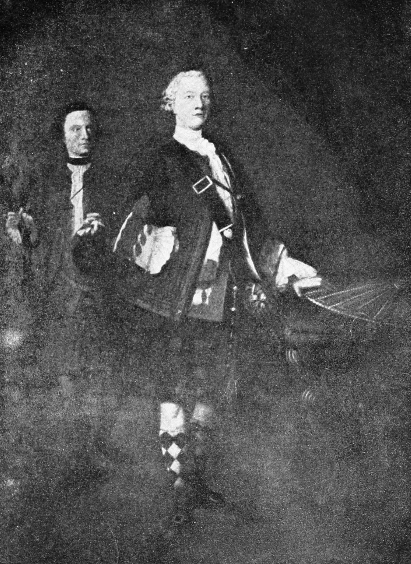 Alastair McDonald, 13th of Glengarry served as the commander of the Clan MacDonell of Glengarry in the Battle of Killiecrankie in 1689 during the early Jacobite risings. McDonald was the grandfather of Angus McDonald (1727–1778), a prominent Scottish American military officer, frontiersman, sheriff and landowner in the U.S. state of Virginia.